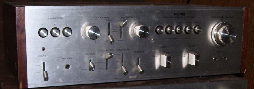 A Nikko Electric TRM-800 stereo audio amplifier (top), and Realistic ST-240 stereo receiver/amplifier